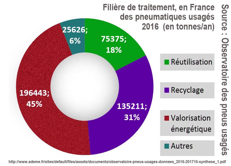 Graph showing the main sectors of treatment / recycling of end-of-life tires in 2016 in France (in tonnes / year).